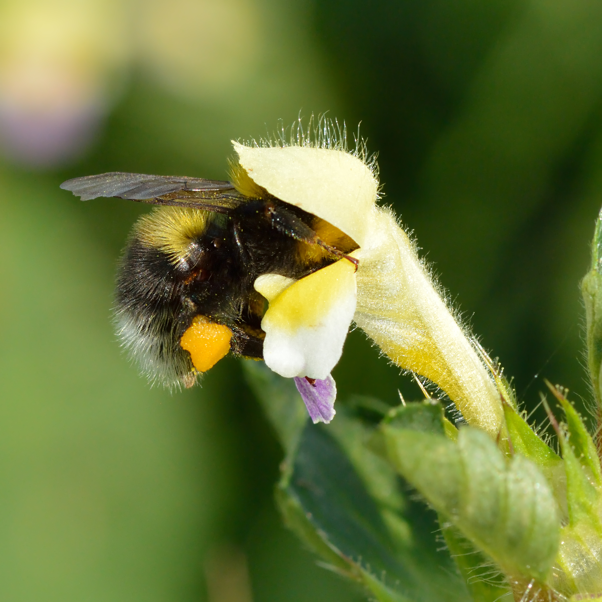 Garden bumblebee (Bombus hortorum) on the large-flowered hemp-nettle (Galeopsis speciosa). Keila, Northwestern Estonia.